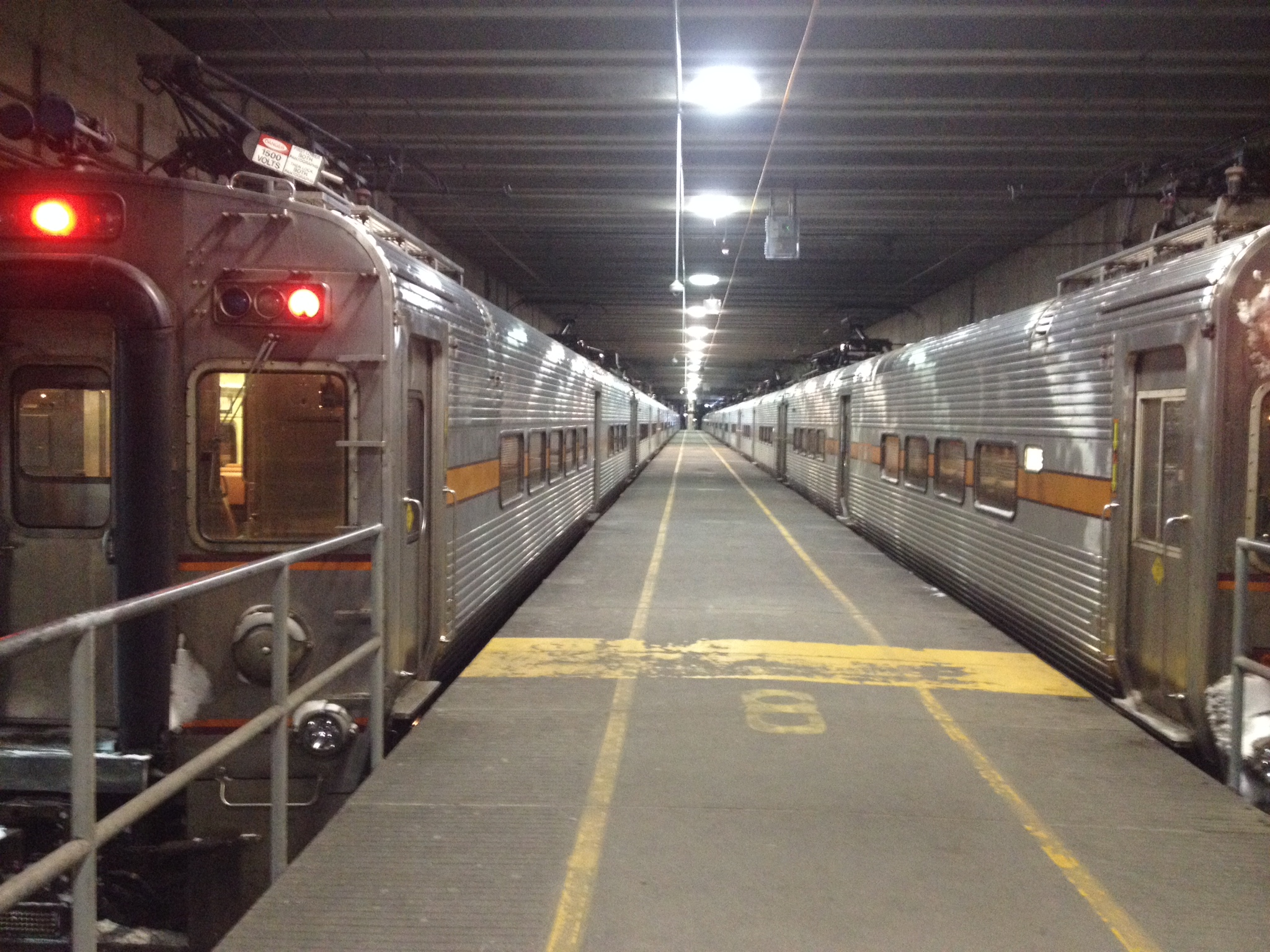 Two South Shore Line trains waiting at Millennium Station.